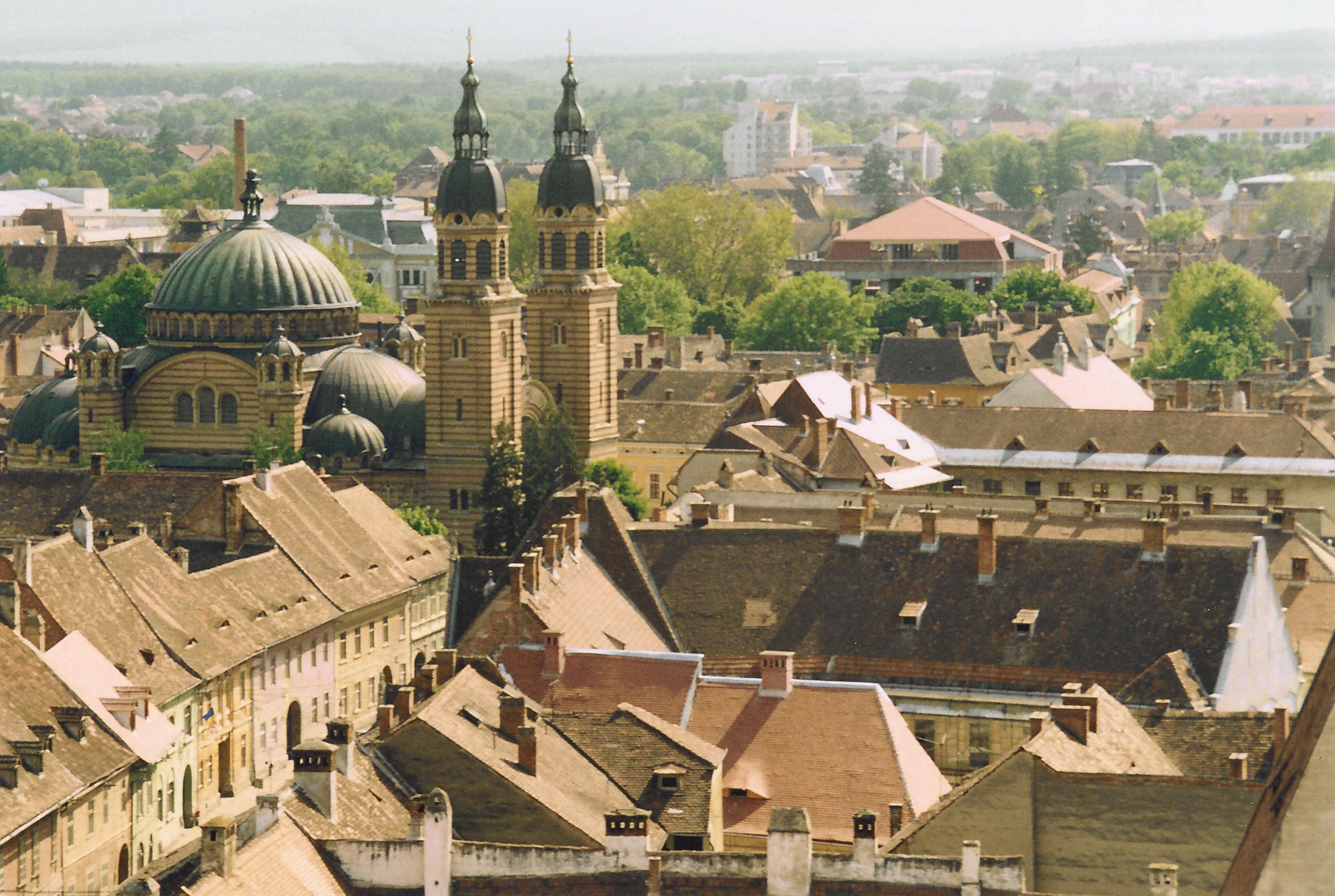 Looking from the tower of the Evangelical Church toward the Orthodox Cathedral, Sibiu, Romania.